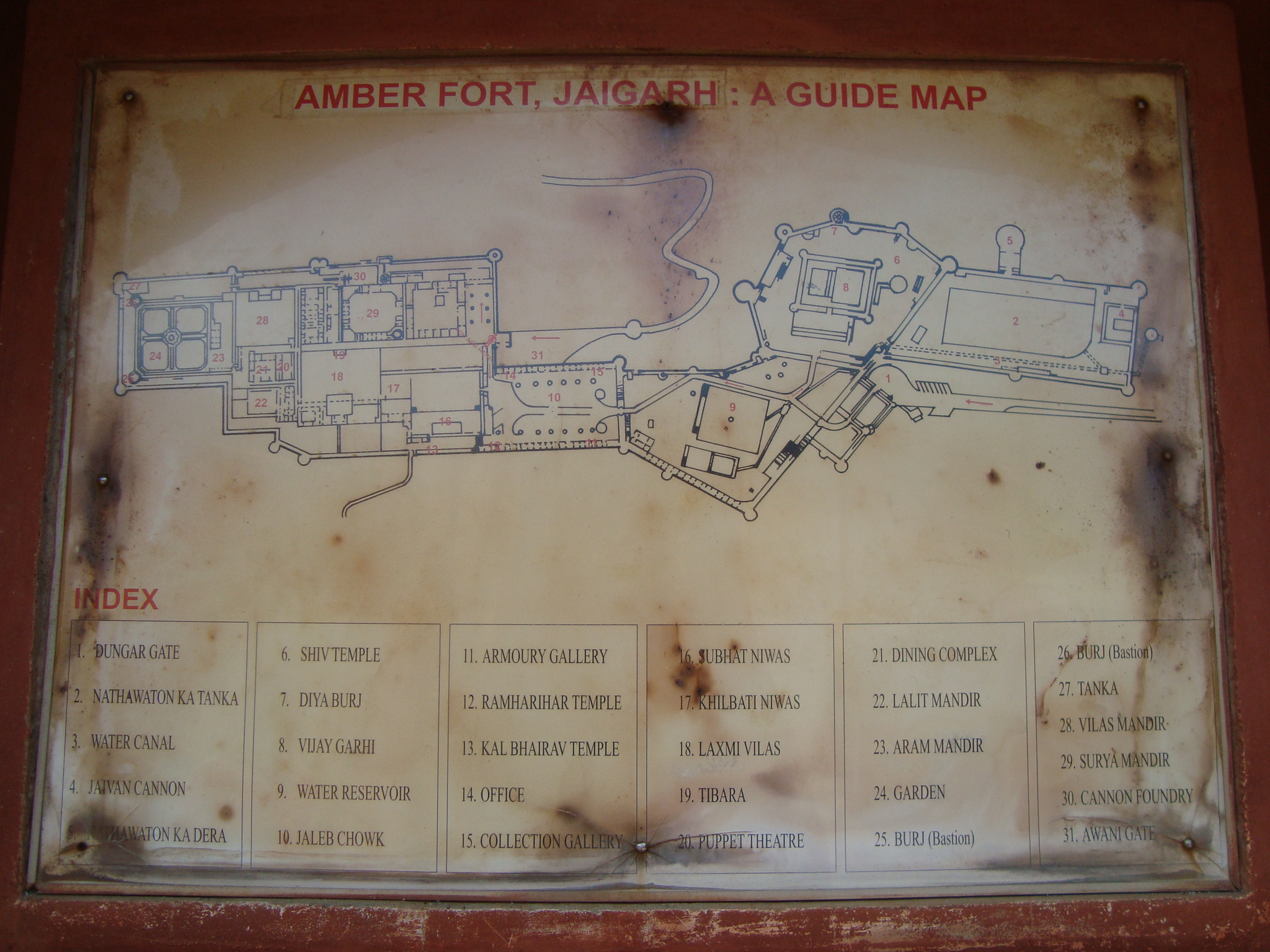 A guide map of Jaigarh fort from the fort itself.